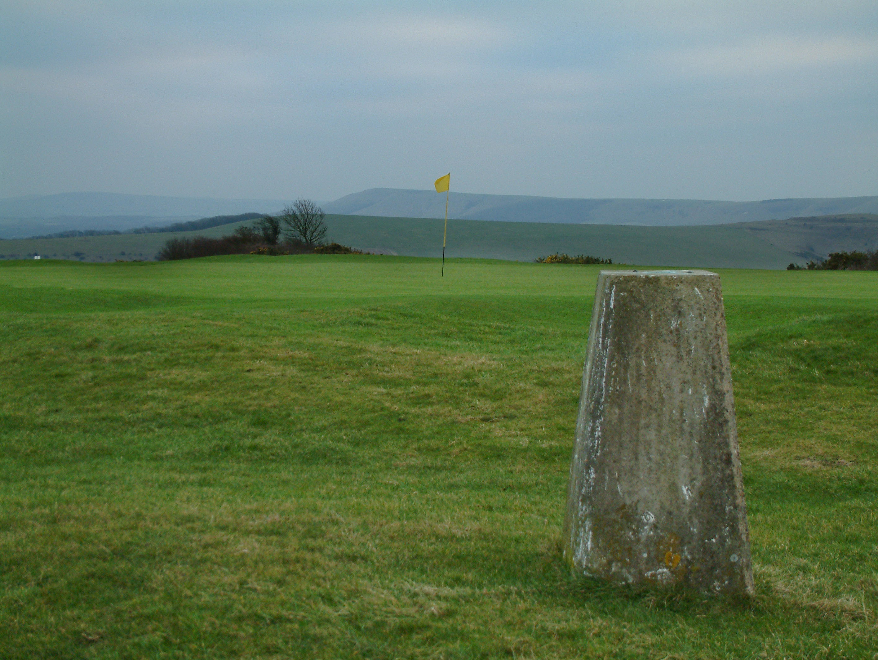 The summit of Cliffe Hill, near Lewes, East Sussex. Photograph by Stephen Dawson, 30 January 2005